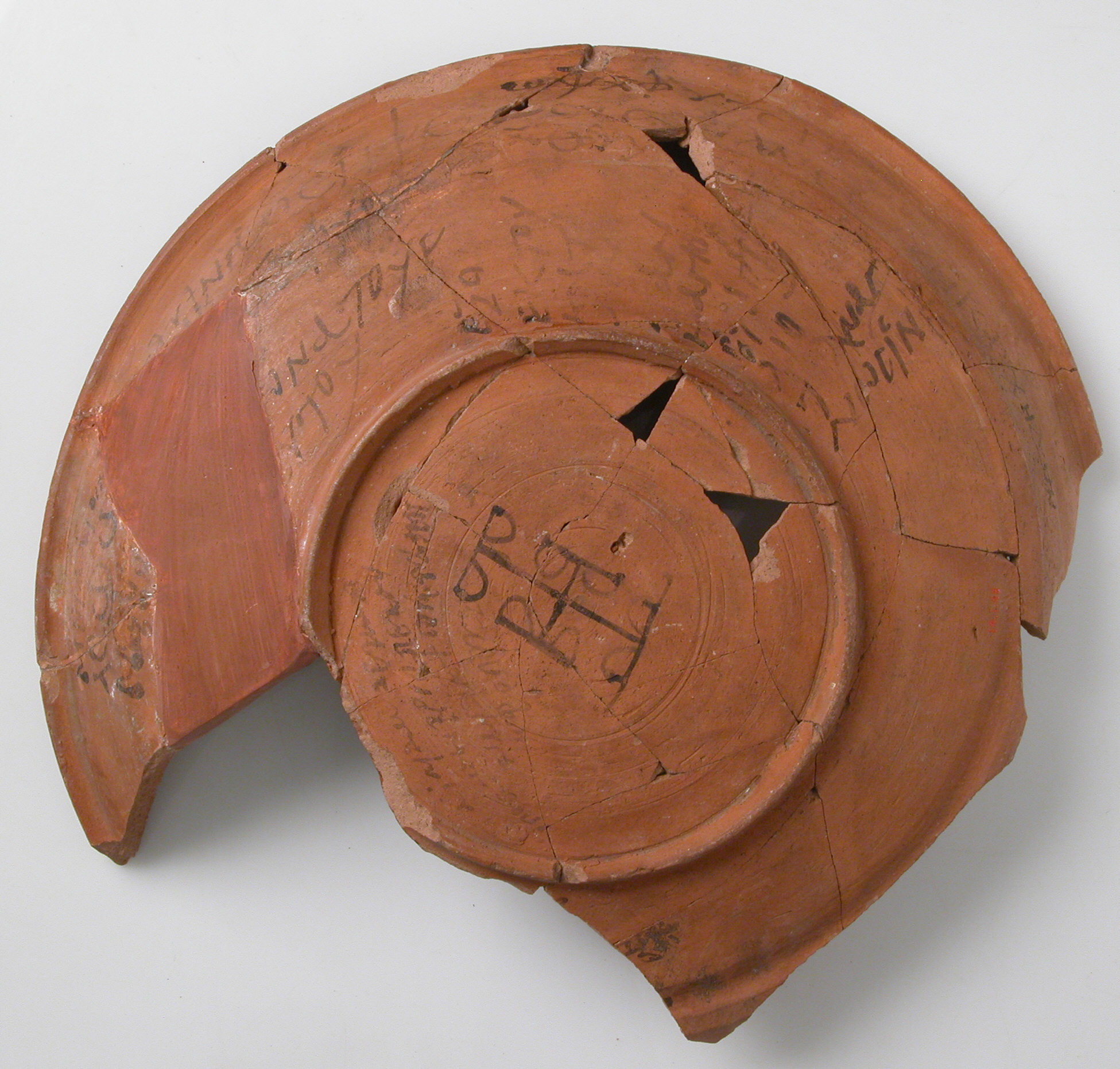 Coptic; Ostrakon; CeramicsEuskara: Ostrakon bat koptoerazko kristau testu eta ikurrekin. Berregina dago, puskatuta aurkitu baitzen.